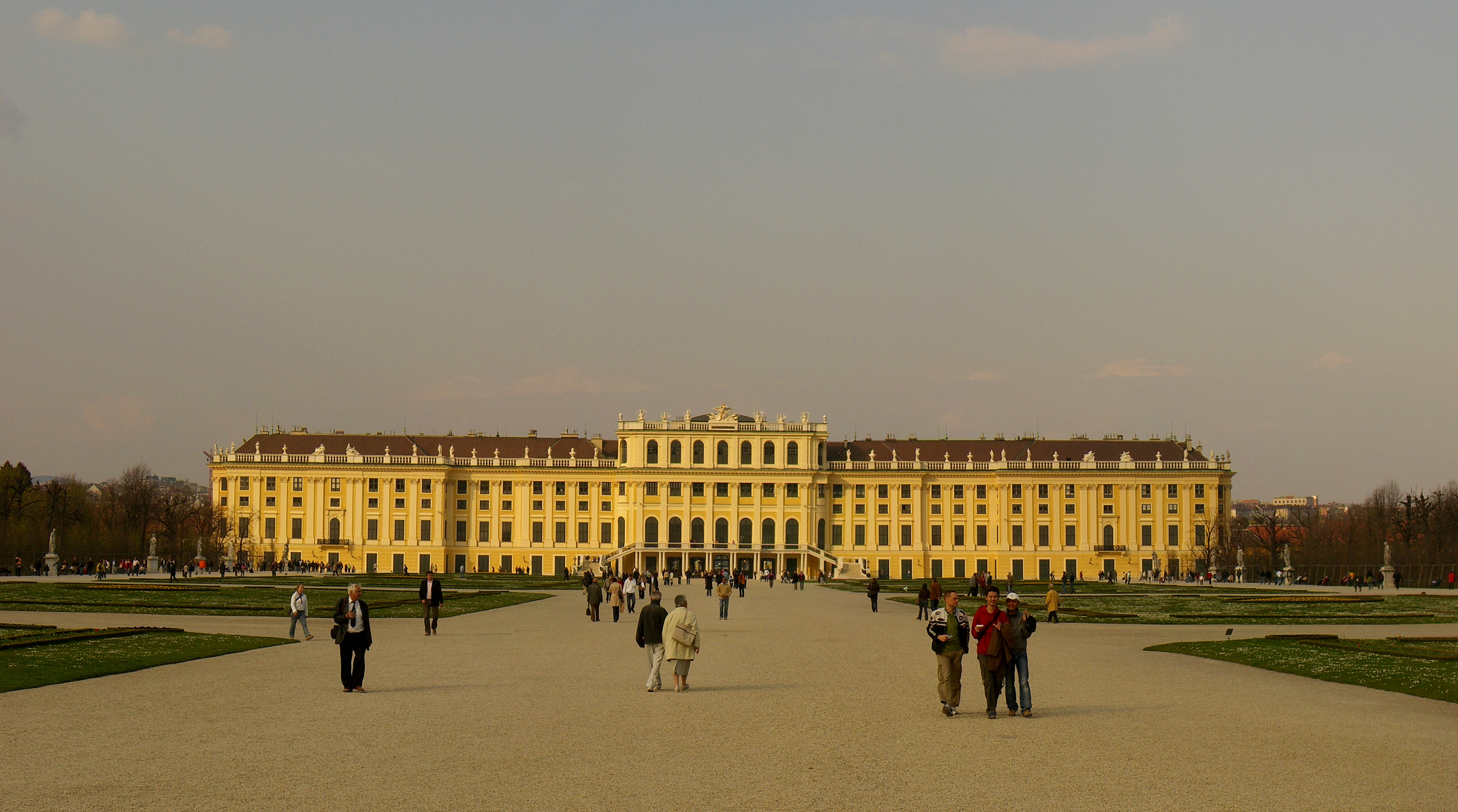 Austria, Vienna, Schönbrunn Palace